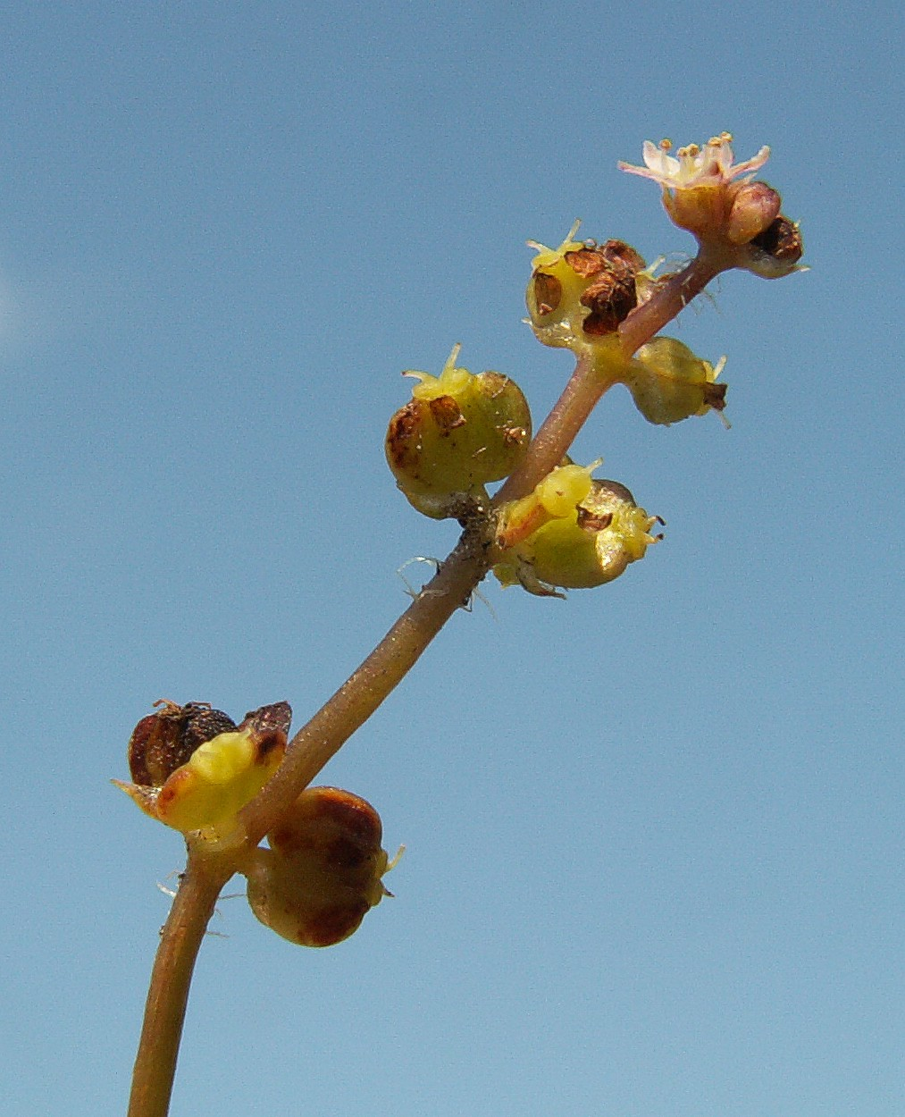 inflorescence of Hydrocotyle vulgaris. Turze on Miedwie Lake, NW Poland